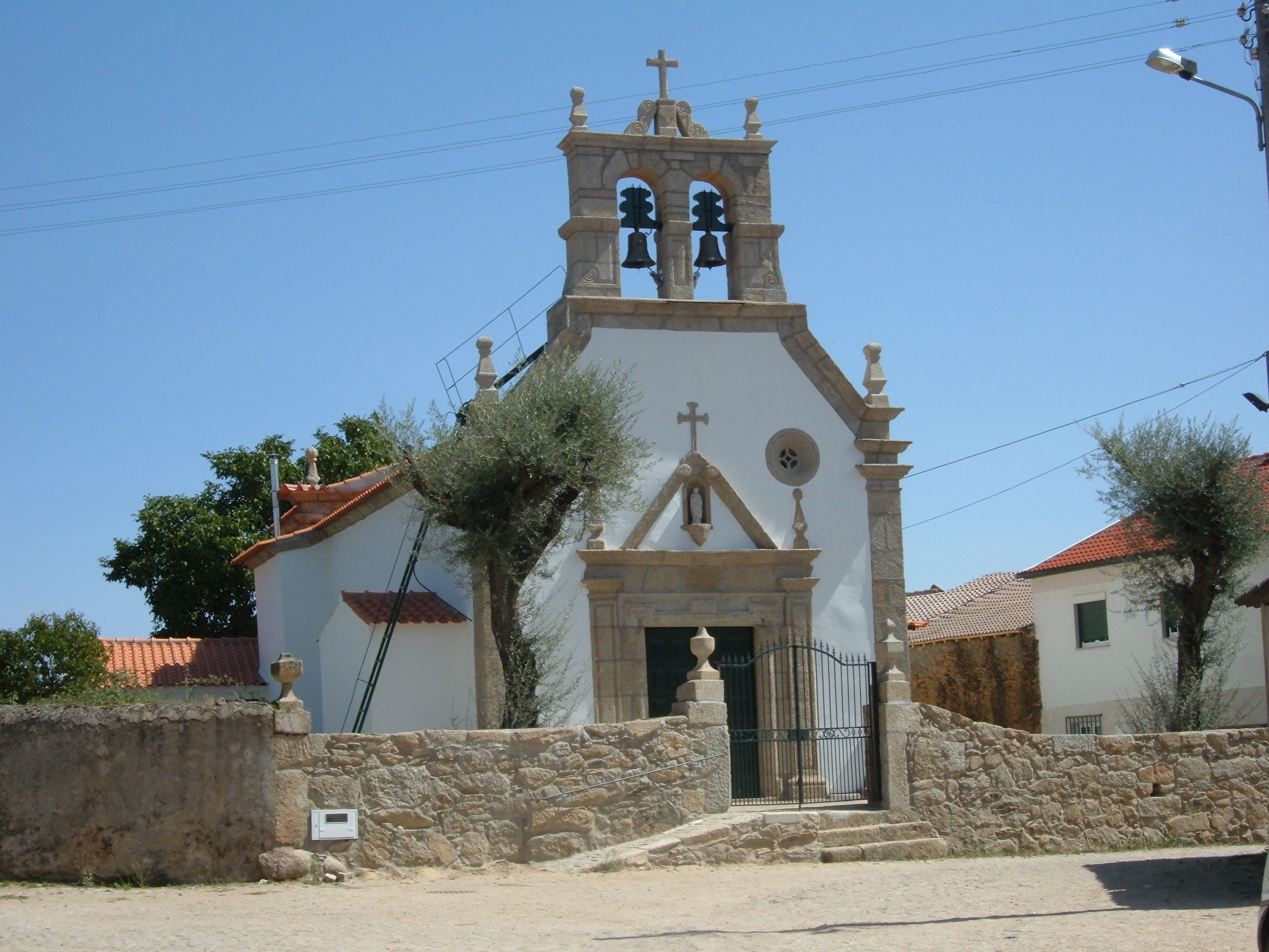 Saint Peter's Church. Mós, Braganza, Portugal.